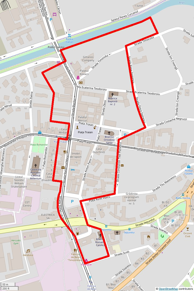 Map of heritage site "Situl urban Fabric (I)", Timișoara, Romania